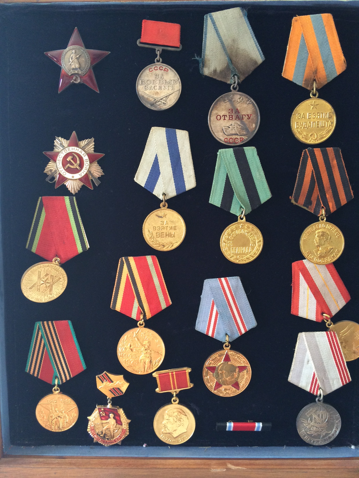 Awards and honors of Lev Bergelson